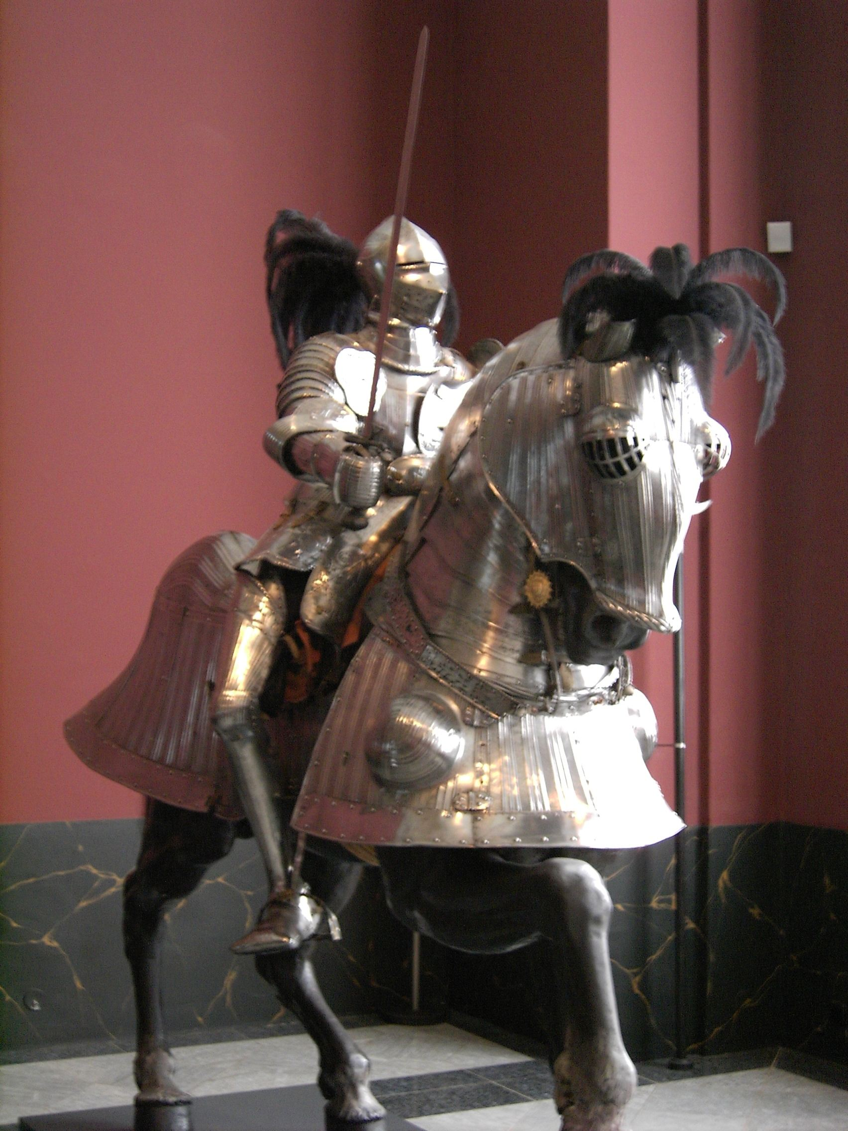 Dresdner Zwinger, 16th or 17th century armour and weapons. This is a knight and horse armour.